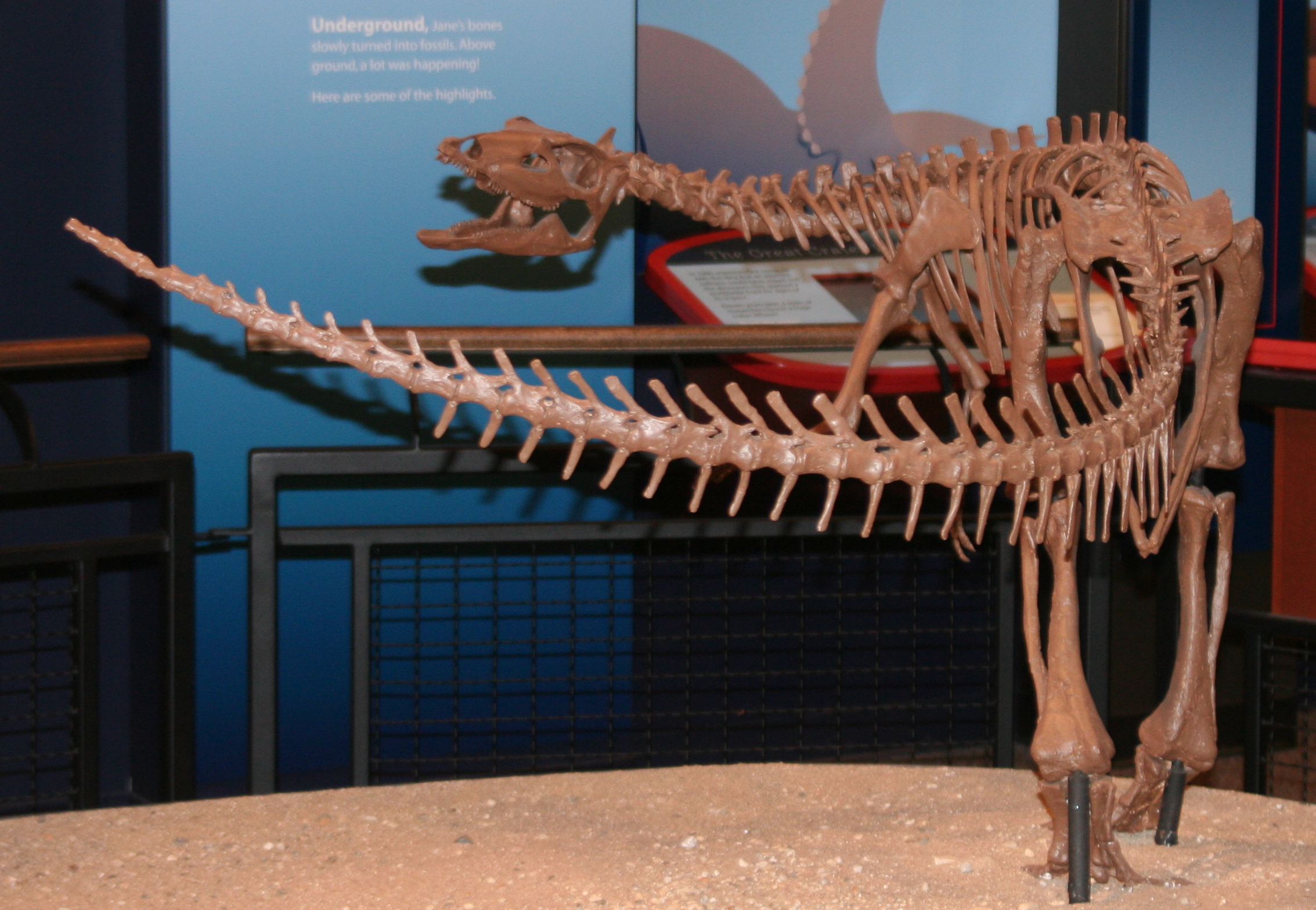 A Thescelosaurus at the Burpee Museum of Natural History in Rockford, Illinois, USA. Size:12 feet in length, 3 ft tall at the hip Weight: 670 lbs when alive.